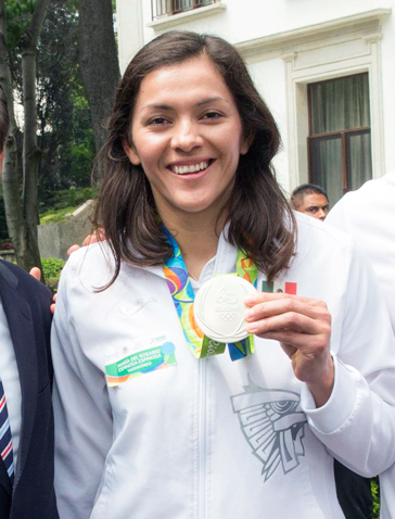 Taekwondo practitioner María Espinoza with her silver medal from the 2016 Rio Olympics.